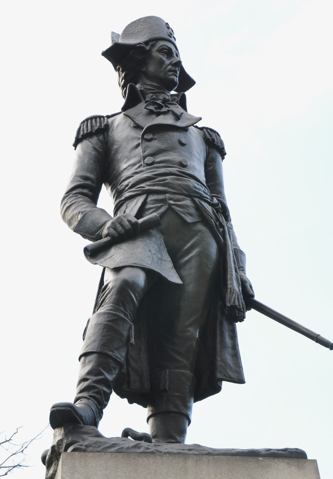 photo of Tadeusz Kościuszko statue in Lafayette Park, Washington, D.C